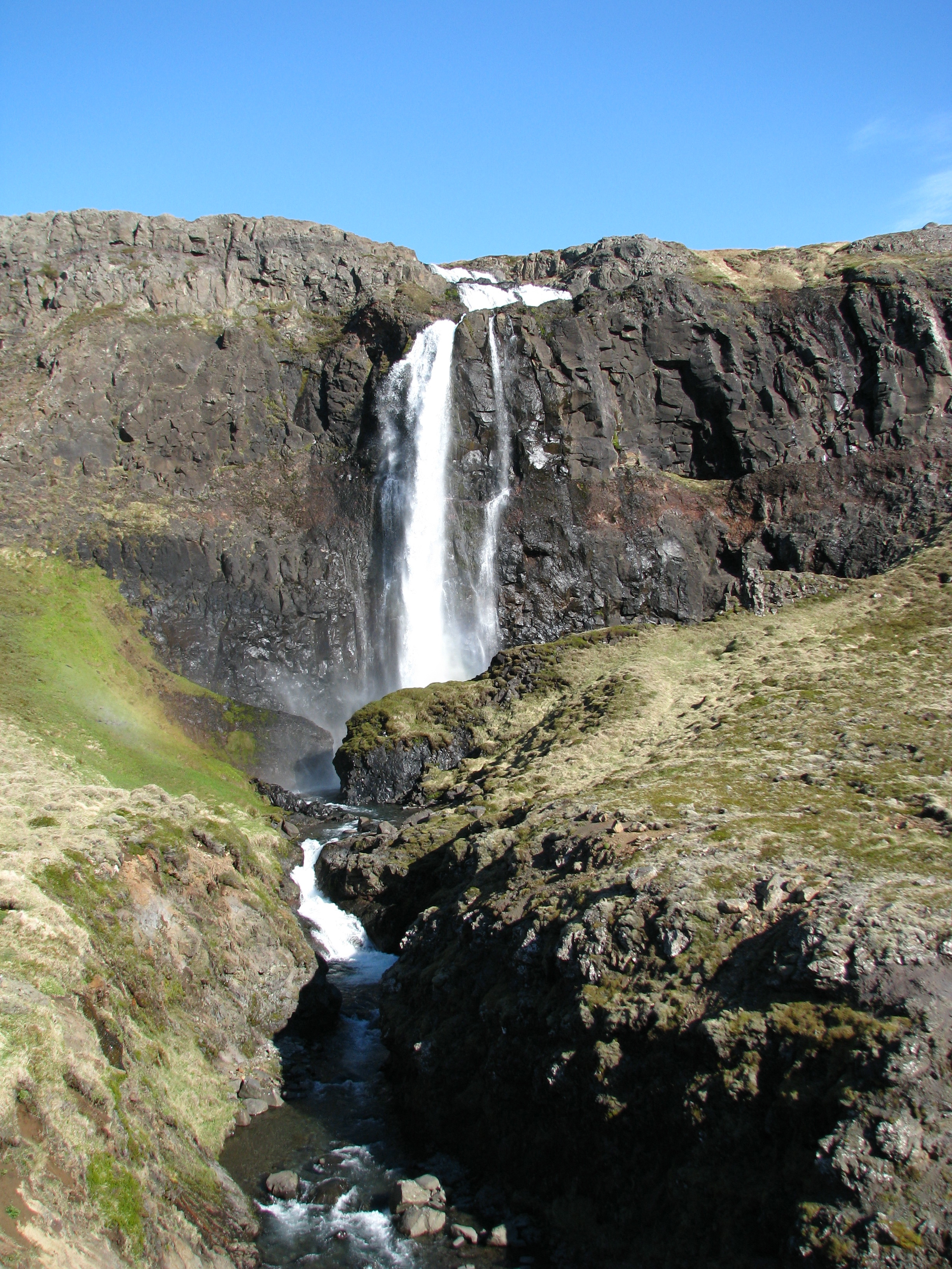 The Gullfoss, a waterfall in West Iceland near the Gilsfjörður